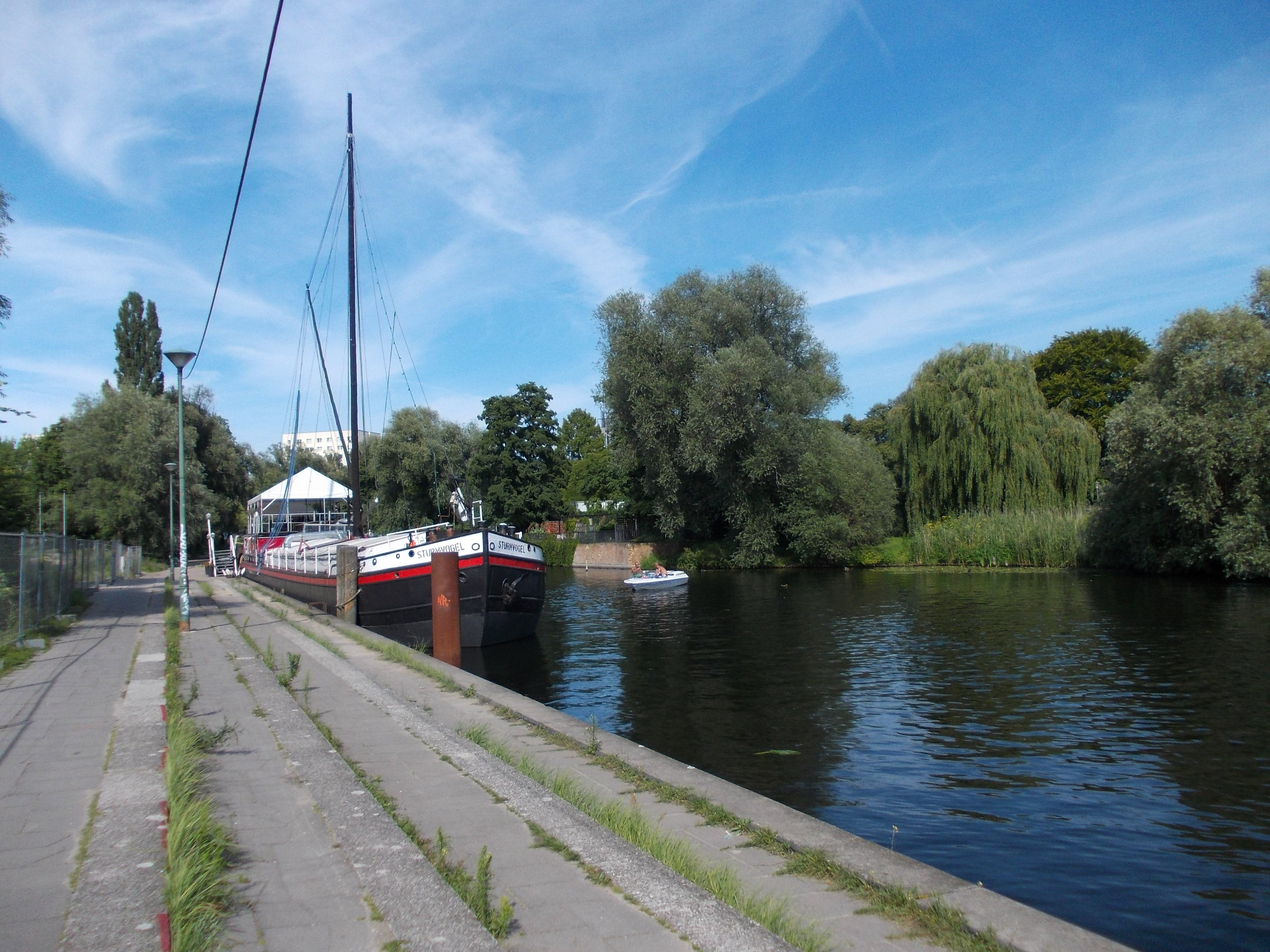 Alte Fahrt branch of the Havel river in Potsdam, with the theatre ship